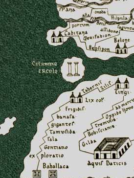 Detail of Pillars of Hercules from Tabula Peutingeriana, 1-4th century CE.